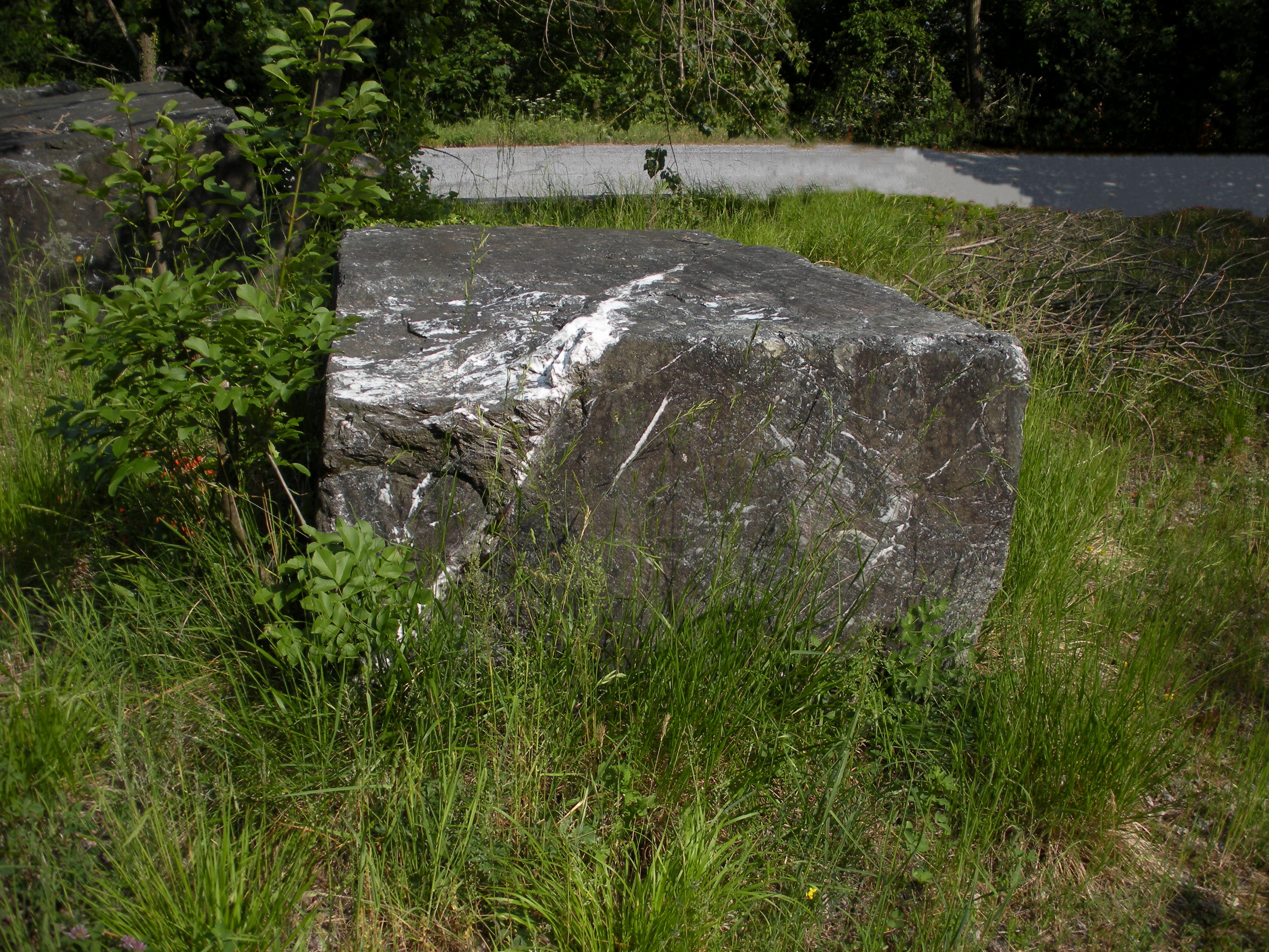 Campomorone, province of Genoa, Italy, block of green marble in an abandoned quarry